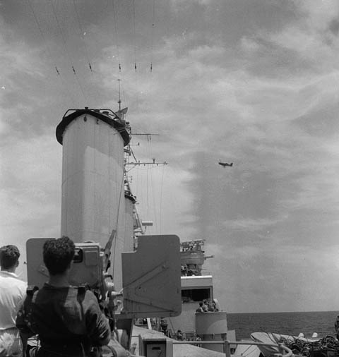 Japanese aircraft attacking H.M.C.S. UGANDA. Ryukyu Islands, Japan.